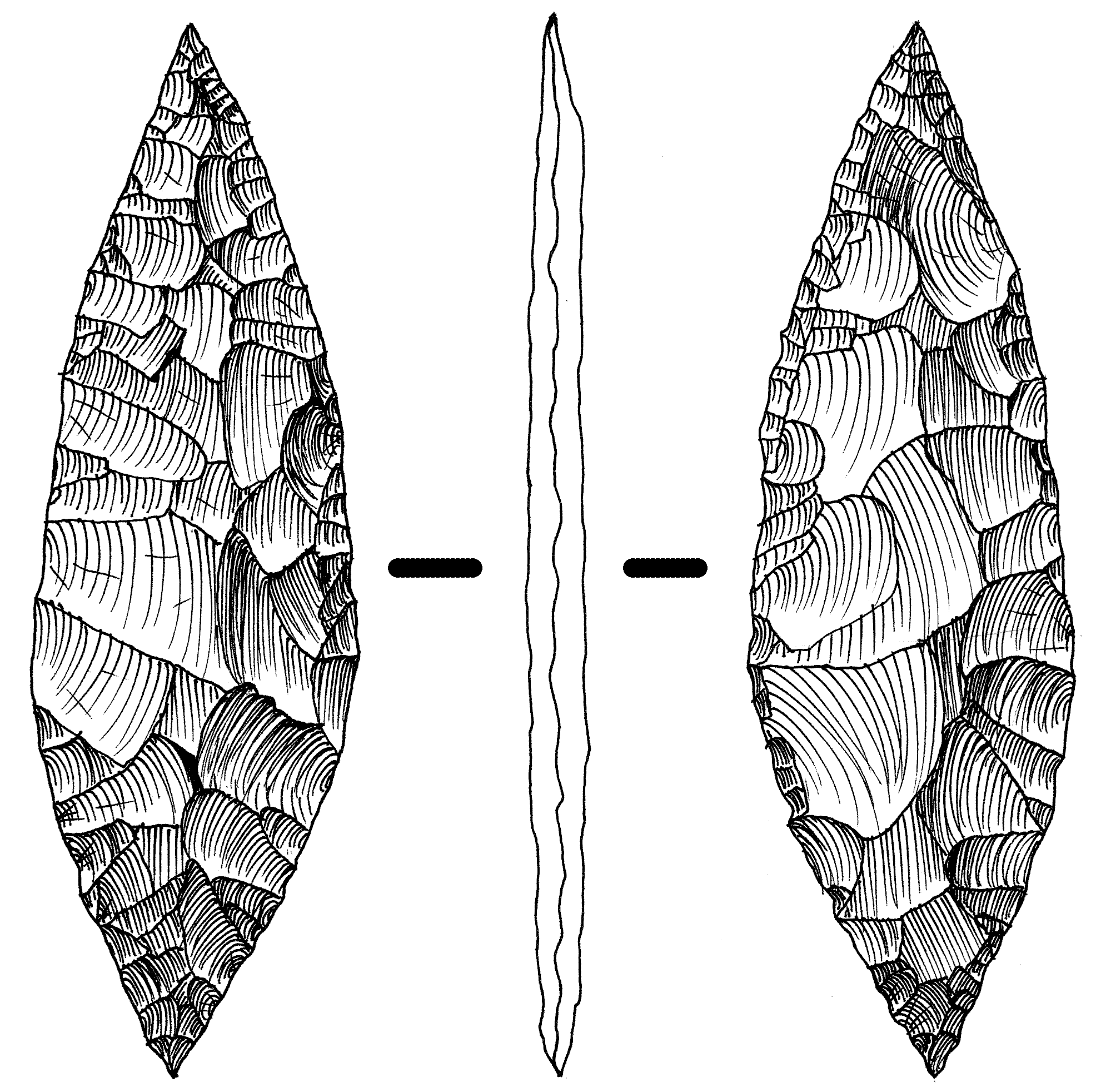 Bifacial points of Solutrean culture